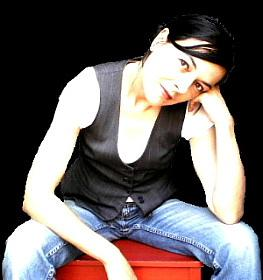 Writer Katja Kullmann